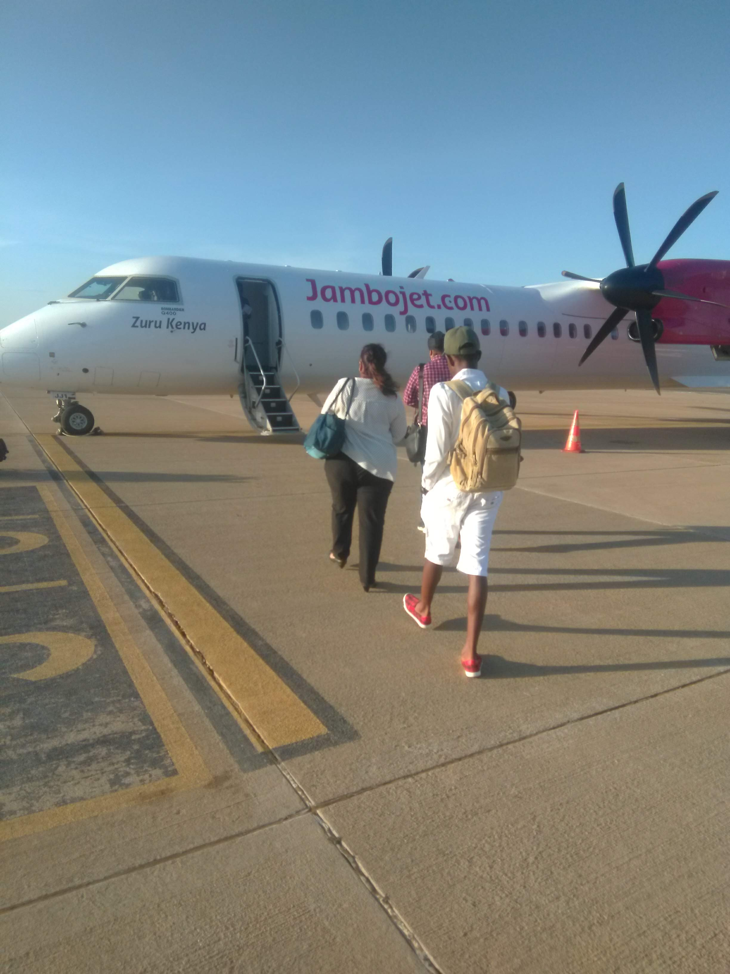 This is a local budget domestic plane which on this case was at Kisumu International Airport enroute to JKIA Nairobi This is an image with the theme "Africa on the Move or Transport" from: Kenya